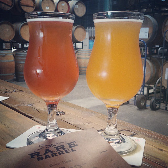 Sour beers at The Rare Barrel in Berkeley, CA